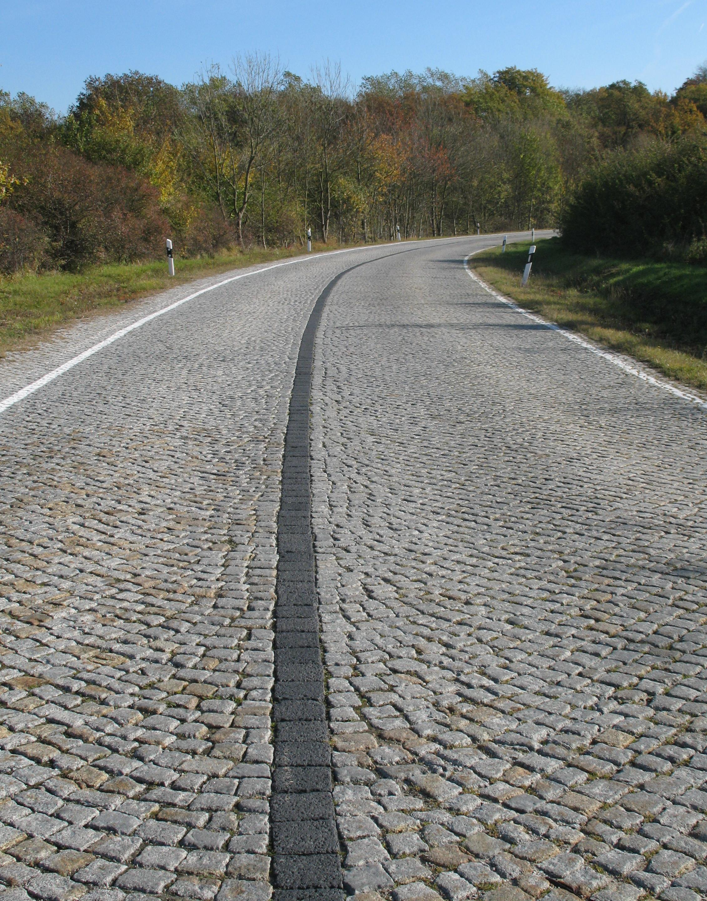 Cobblestone street near Erfurt in Thuringia, Germany